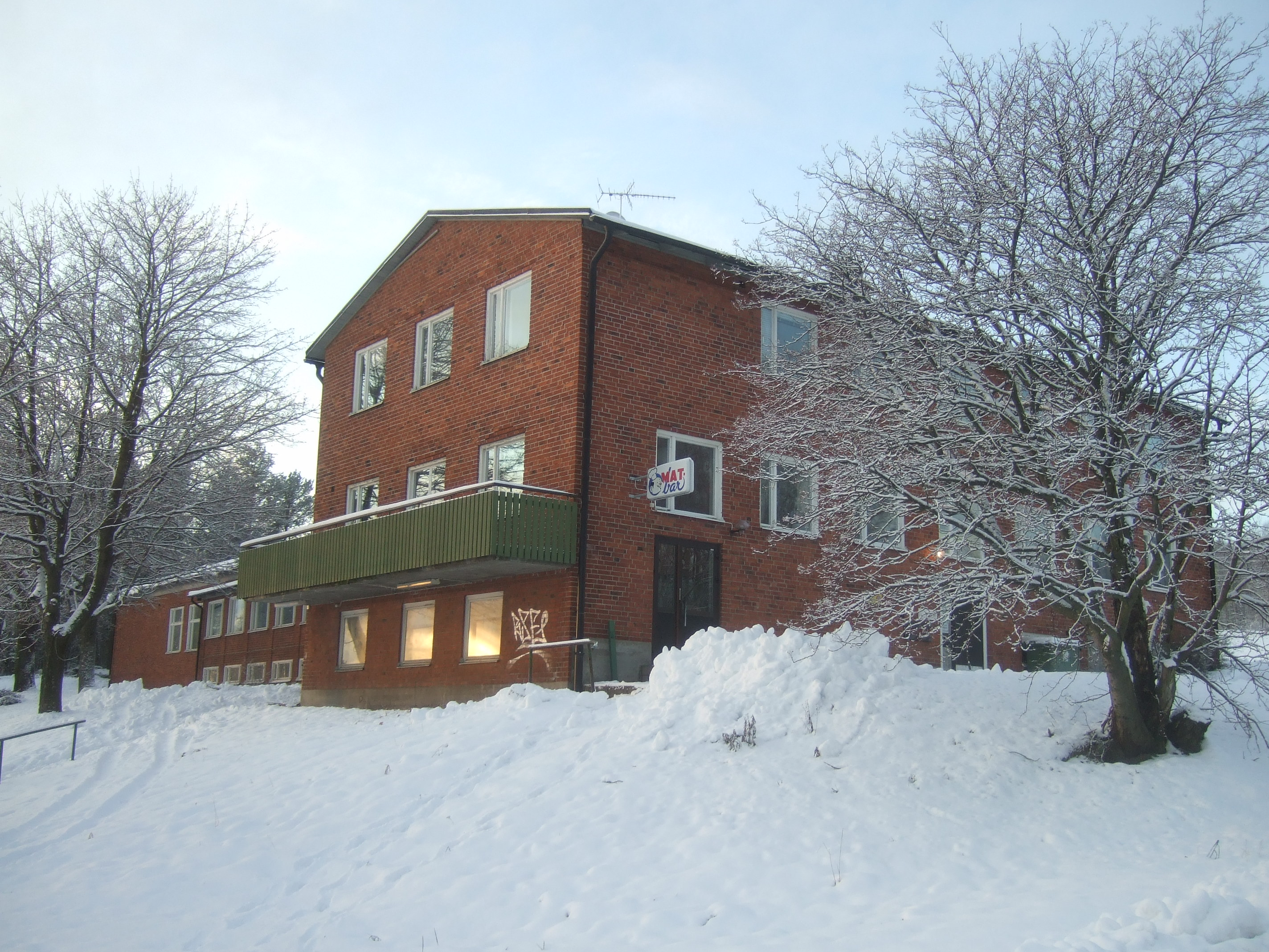 North section of the building of "Medborgarhuset Kusten" at Syntésvägen 4, Stockvik, in Sundsvall Municipality, viewed from northeast